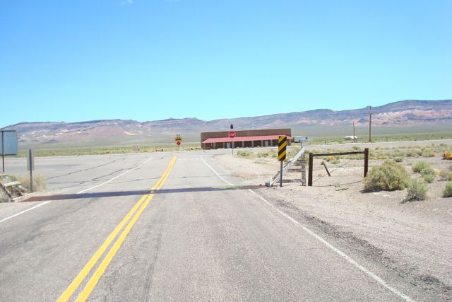 Scotty's Junction from Nevada State Route 267.